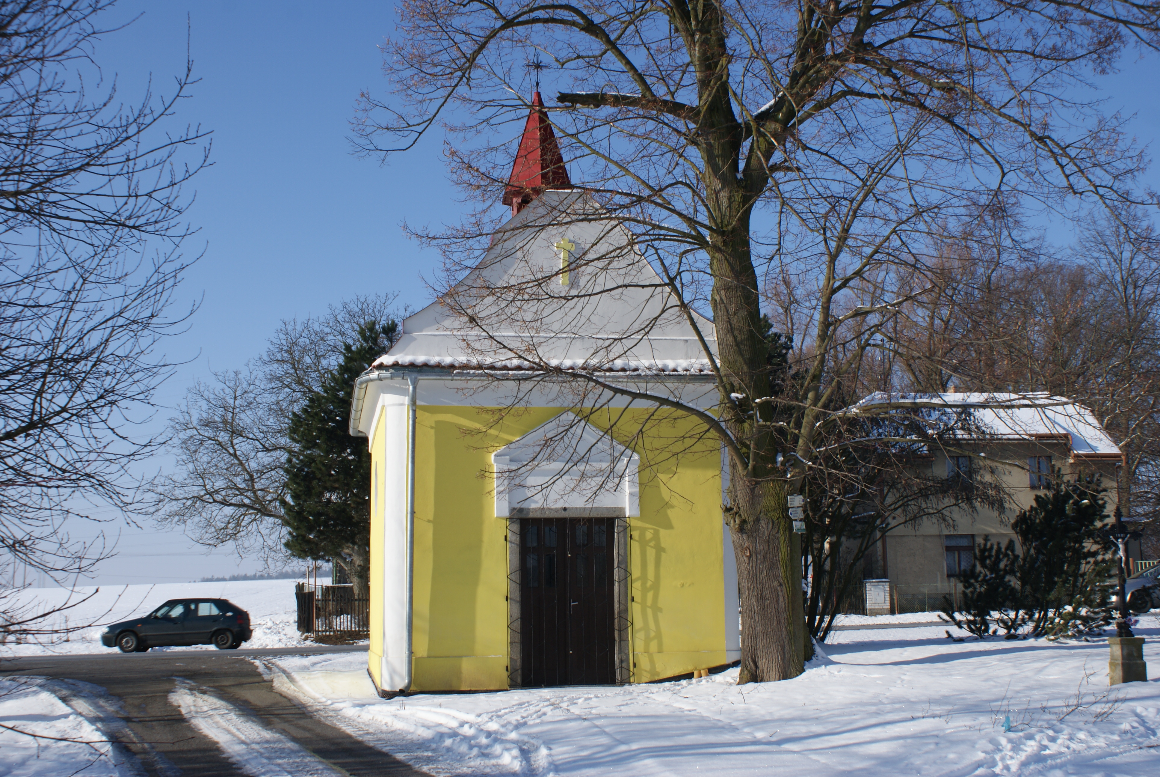 Chraštičky, a village in Příbram district, Czech Republic, a chapel.